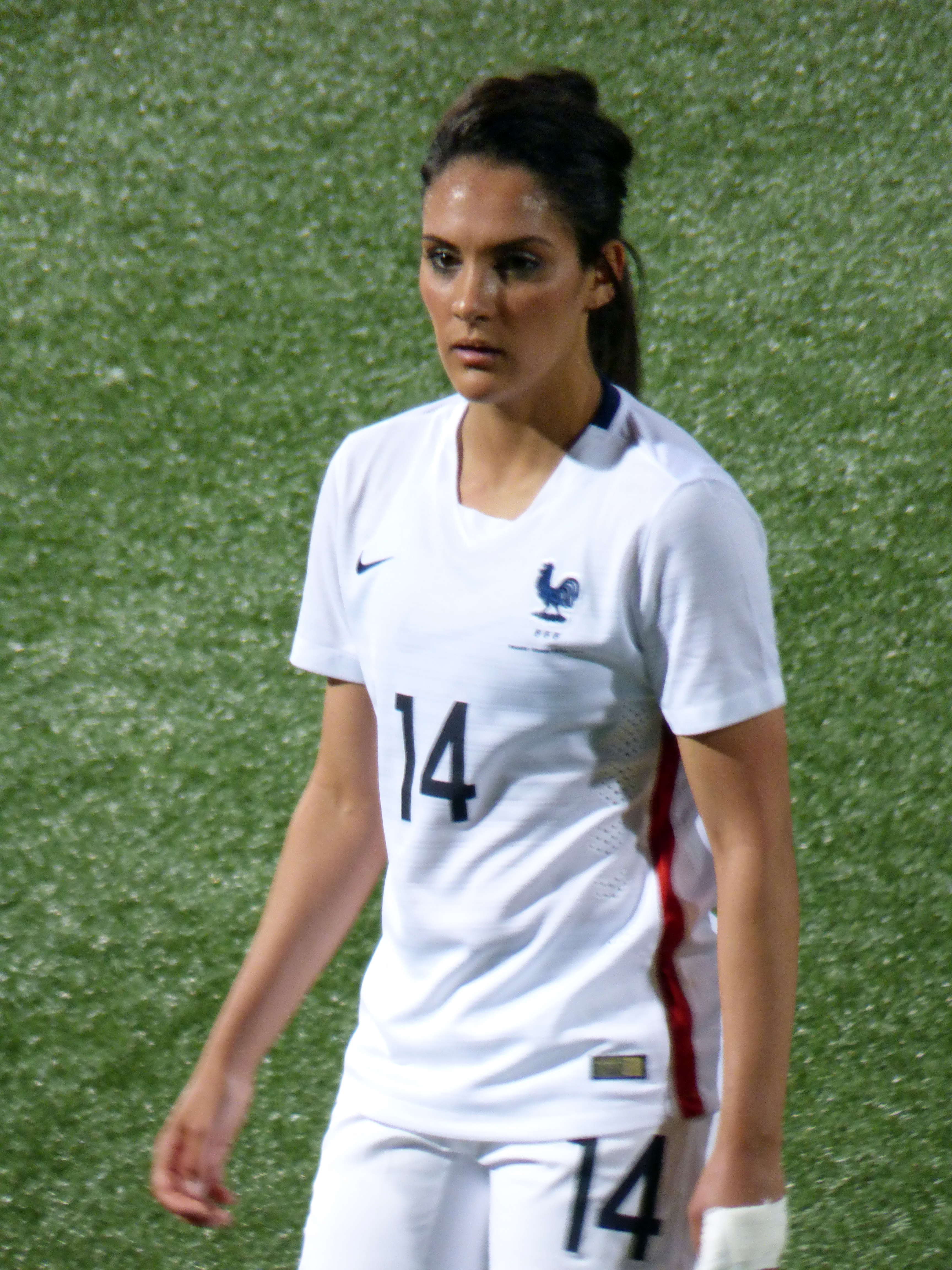 Louisa Nécib playing for France in 2015